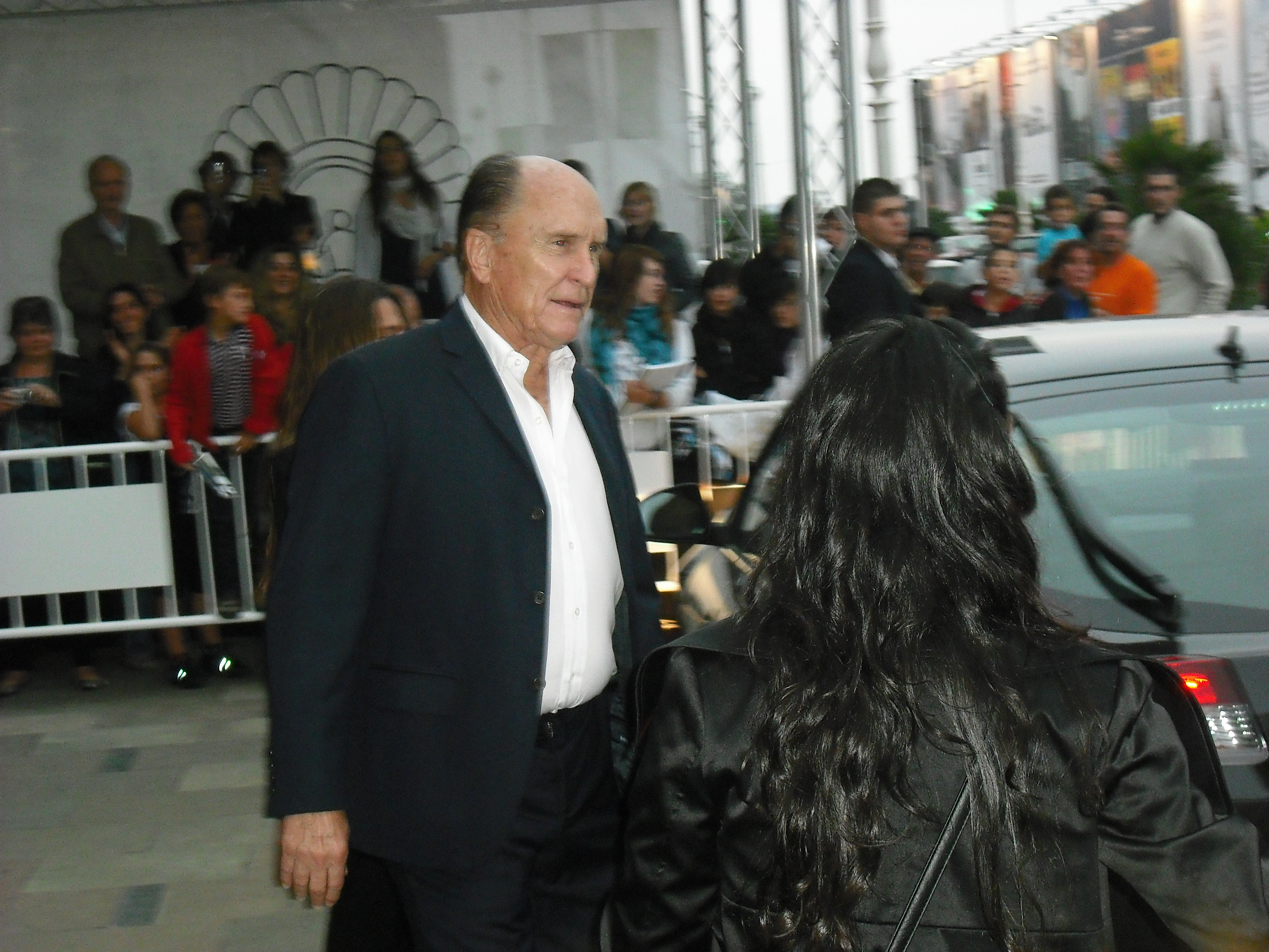 Robert Duvall en San Sebastián.